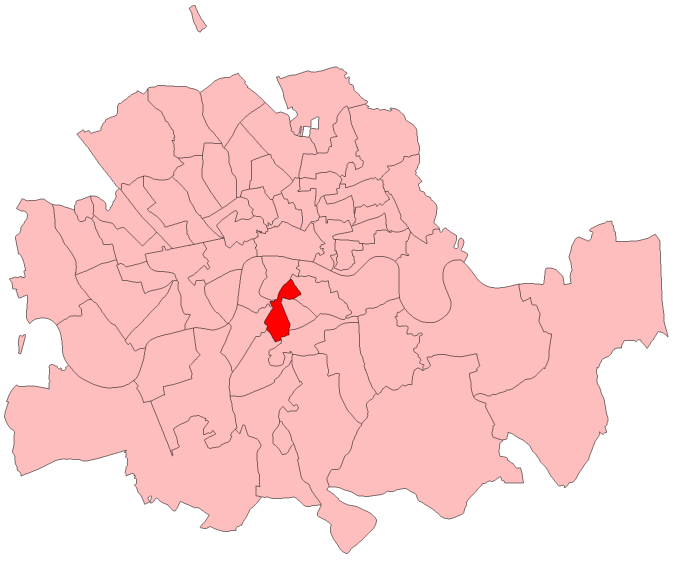 A map of Newington West constituency within the Metropolitan Board of Works area, as it existed from 1885 to 1918.